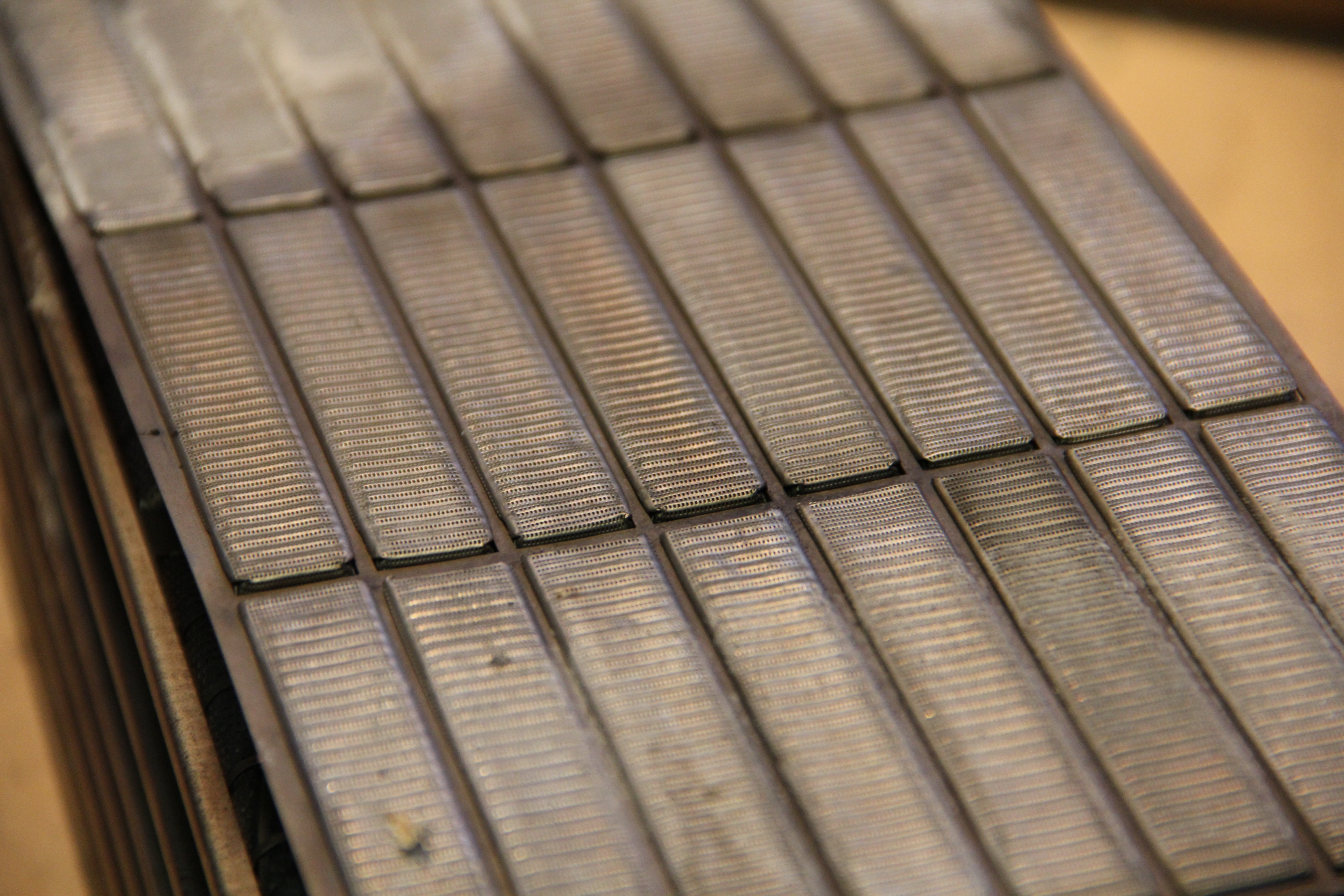 The active material of the negative plates of the Nickel Iron battery is iron oxide. The retainer pockets are made of very thin, finely perforated nickel-plated steel, of rectangular shape, 1/2 in. wide, 3 in long and 1/8 in. maximum thickness. The iron oxide, in finely powdered form is tightly rammed into these pockets, after which they are mounted into the grids. After mounting they are pressed, forcing them into close contact with the grids, and at the same time making the sides of the pockets of corrugated form to provide a spring contact of the pocket with the active material